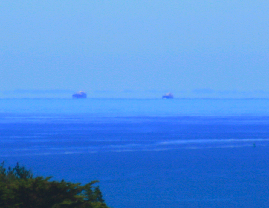 Dr. Young explanation of the image: "This is probably looming (and mirage) of the sea surface beyond the apparent horizon. The sea surface seems to be unusually calm; perhaps the wind was blowing offshore, and damping the incoming swells? So the sky reflected in the middle distance is not far above the sea horizon. But the sea *at* the horizon is dark (meaning the waves are steeper there). That lighter strip of sea gives the impression of being a miraged zone, because it matches the sky so well."